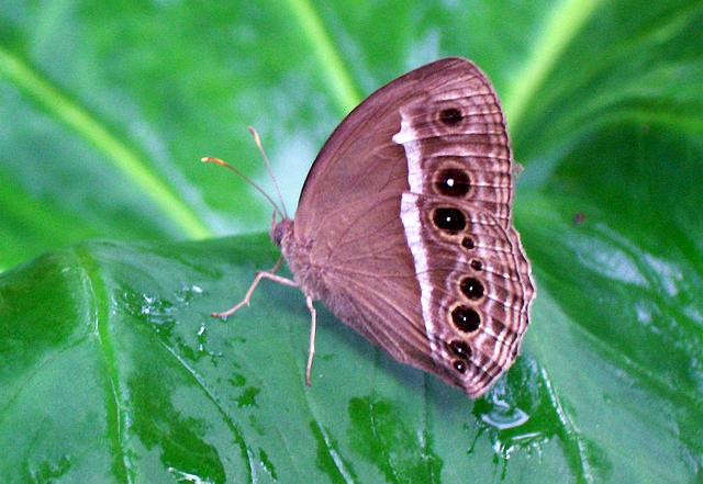 Common Bush Brown Mycalesis perseus